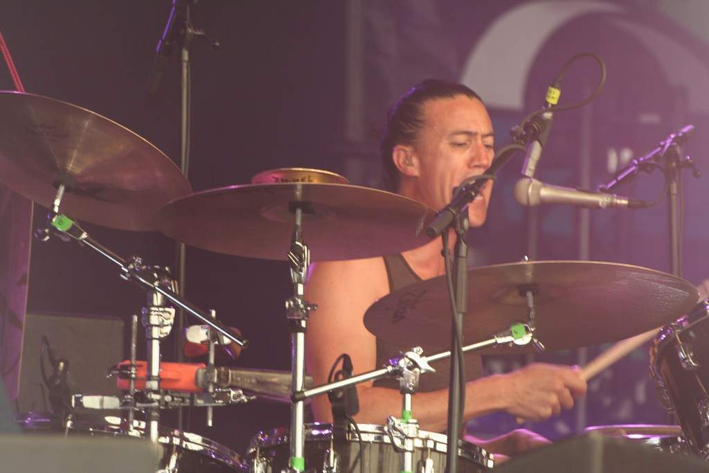 In my opinion the best of the festival !